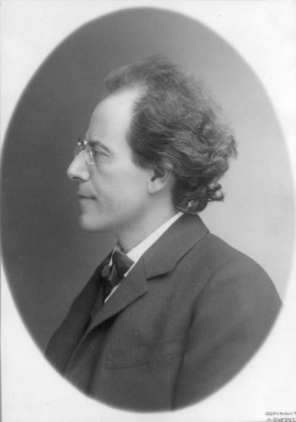 Gustav Mahler, 1860-1911; Head and shoulders, left profile; this work was published in: Krehbiel, Henry Edward (1909) [1908] Chapters of Opera: Being Historical and Critical Observations and Records Concerning the Lyric Drama in New York From its Earliest Days Down to the Present Time (Second edition ed.), Category:New York: Henry Holt and Company, pp. p. 362 Retrieved on 30 March 2010.